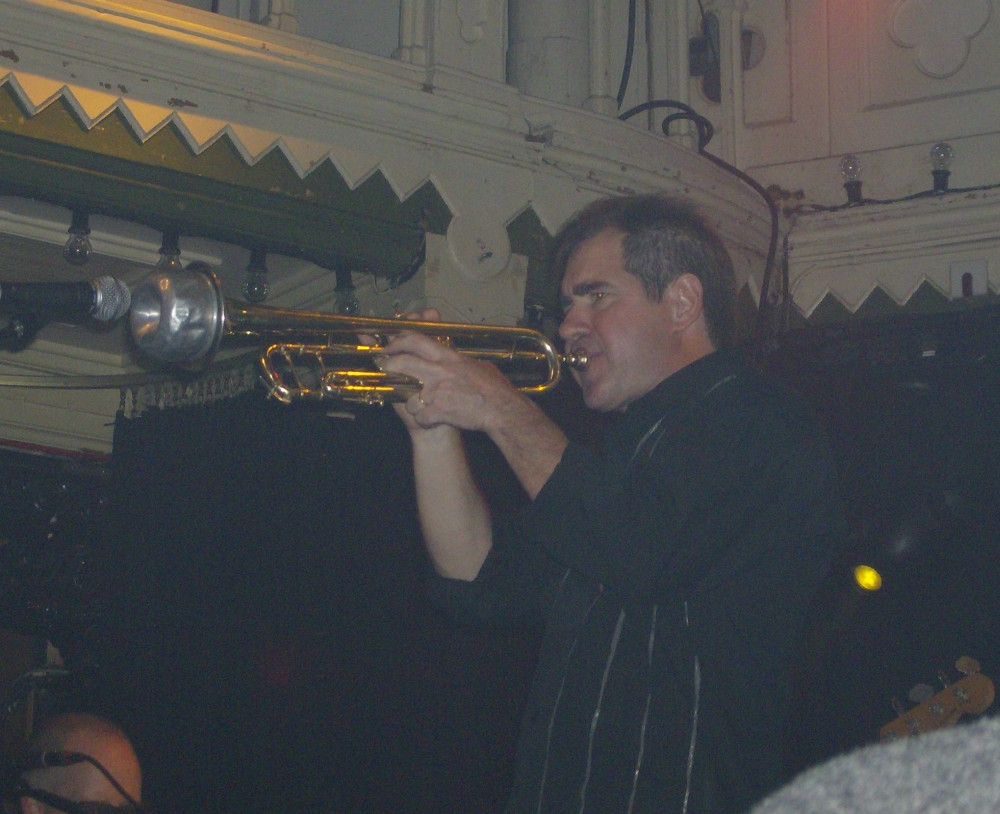 Chris Anderson, trumpetist with Southside Johnny and the Asbury Jukes, live in Amsterdam, October 5, 2007